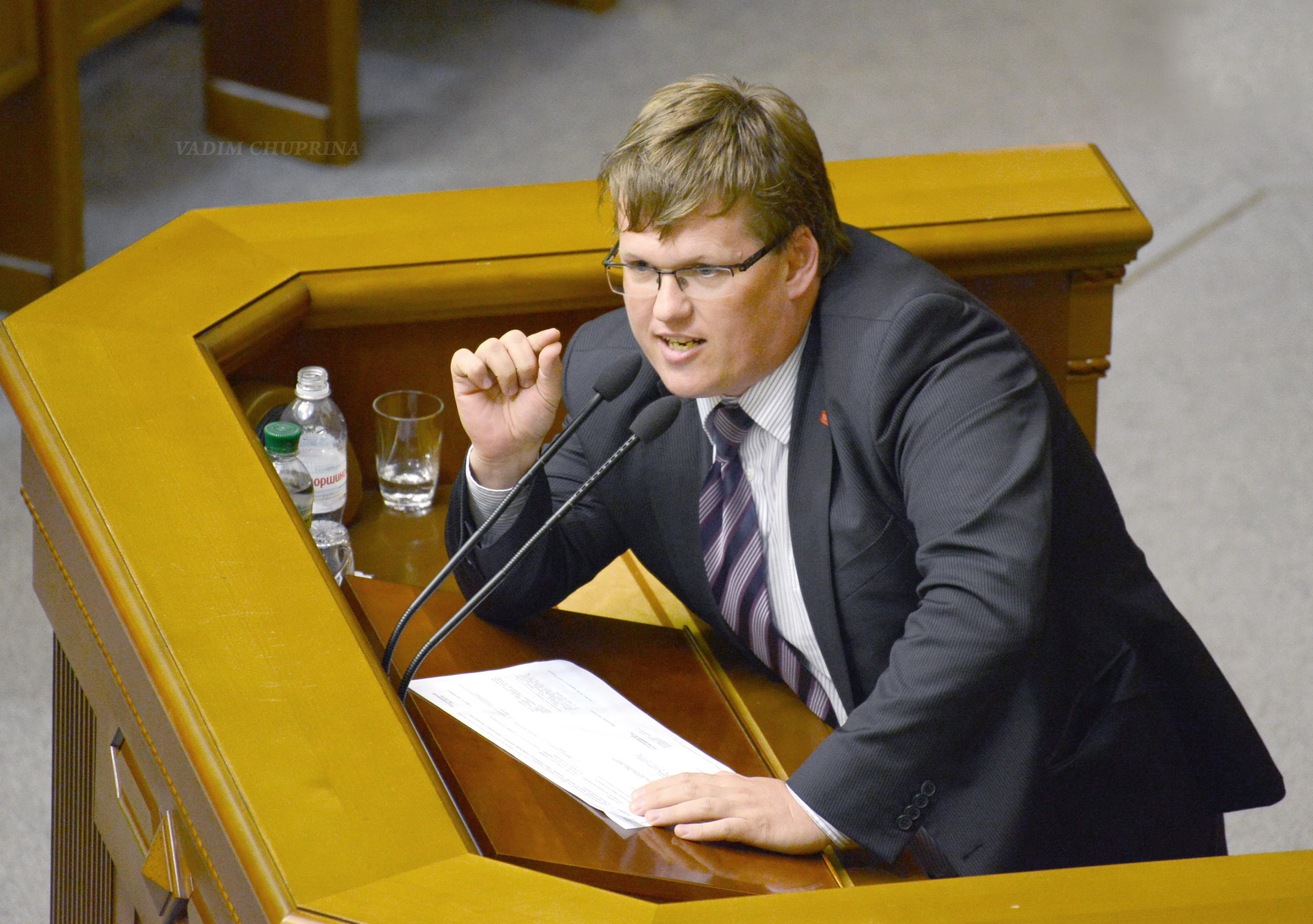 Ukrainian politicians VADIM CHUPRINA